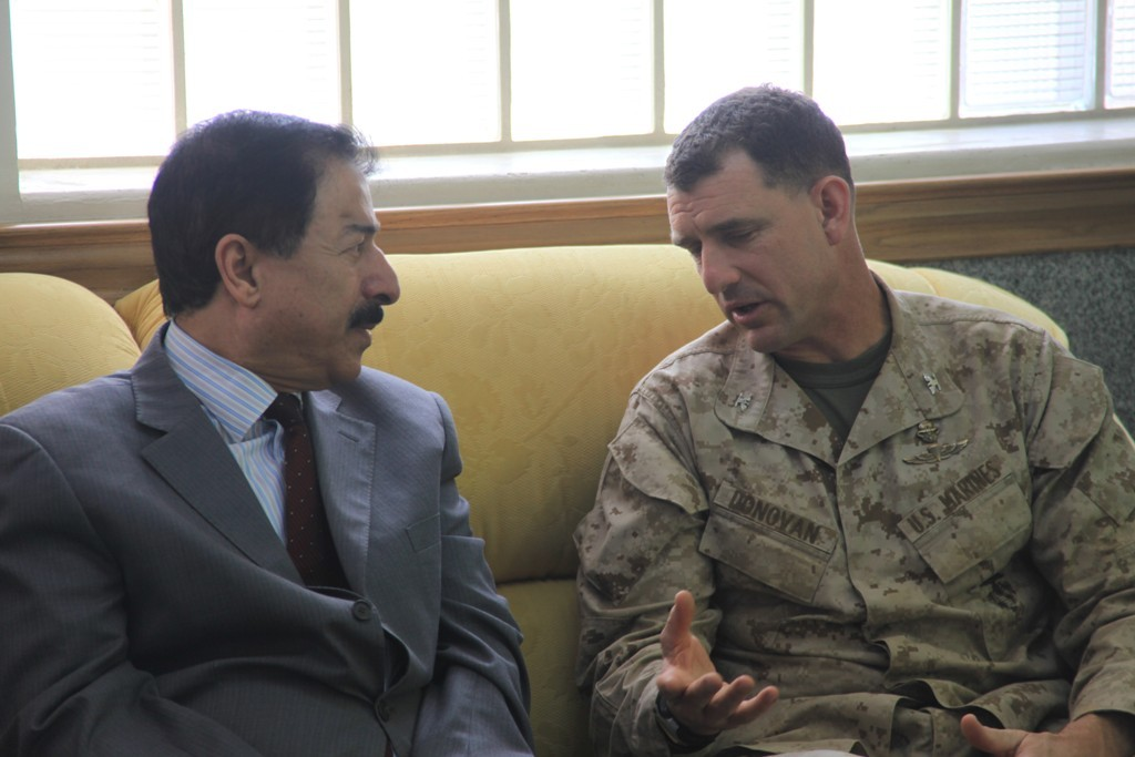 Col. Frank Donovan, commanding officer of the 24th Marine Expeditionary Unit, speaks with Thamer Alfaiez, the governor of Aqaba City, about the positive experiences between the 24th MEU and their Jordanian counterparts during Exercise Eager Lion 12 here, May 16, 2012. Throughout Eager Lion 12 the 24th MEU is participating in a variety of training exercises with partnered nations to increase interoperability and learn about other countries' militaries. Eager Lion 12 is a recurring exercise designed to strengthen military-to-military relationships through a joint, whole-of-government, multinational approach to future complex national security challenges. The 24th MEU, partnered with the Iwo Jima Amphibious Ready Group, is currently deployed to the Central Command area of operations as a theater-reserve and crisis-response force.